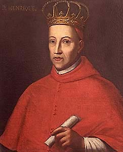 Henrique I, King of Portugal